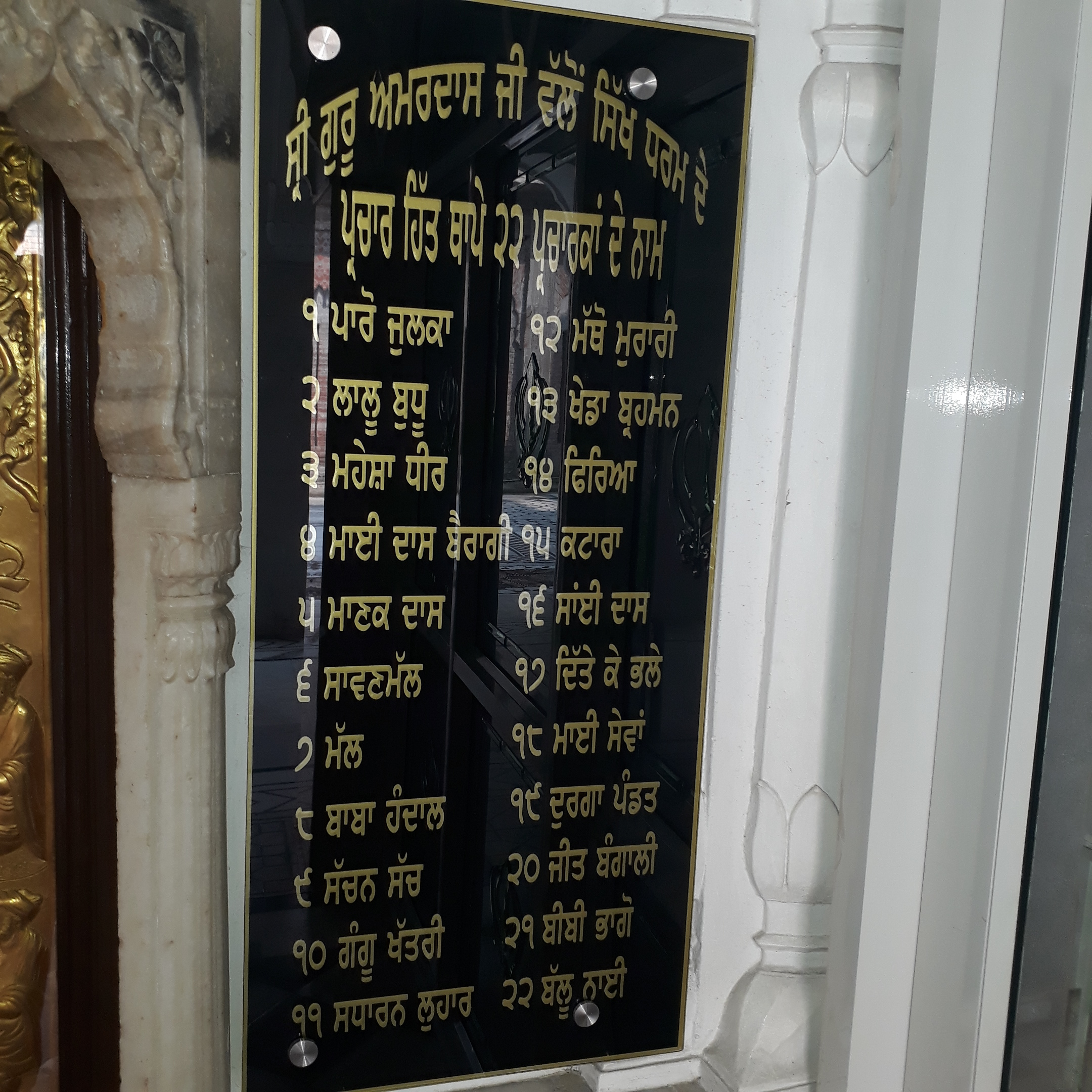 Wall plaque is installed at monumental house of Guru Amardas called Gurdwara Chaubara sahib ਪੰਜਾਬੀ: 22 ਪ੍ਰਚਾਰਕਾਂ ਦੇ ਨਾਂ ਦਰਸਾਉਂਦੀ ਇਹ ਤਖਤੀ ਗੁਰਦਵਾਰਾ ਚੁਬਾਰੇ ਸਾਹਿਬ ਗੋਇੰਦਵਾਲ ਵਿਖੇ ਸਥਾਪਿਤ ਹੈ।